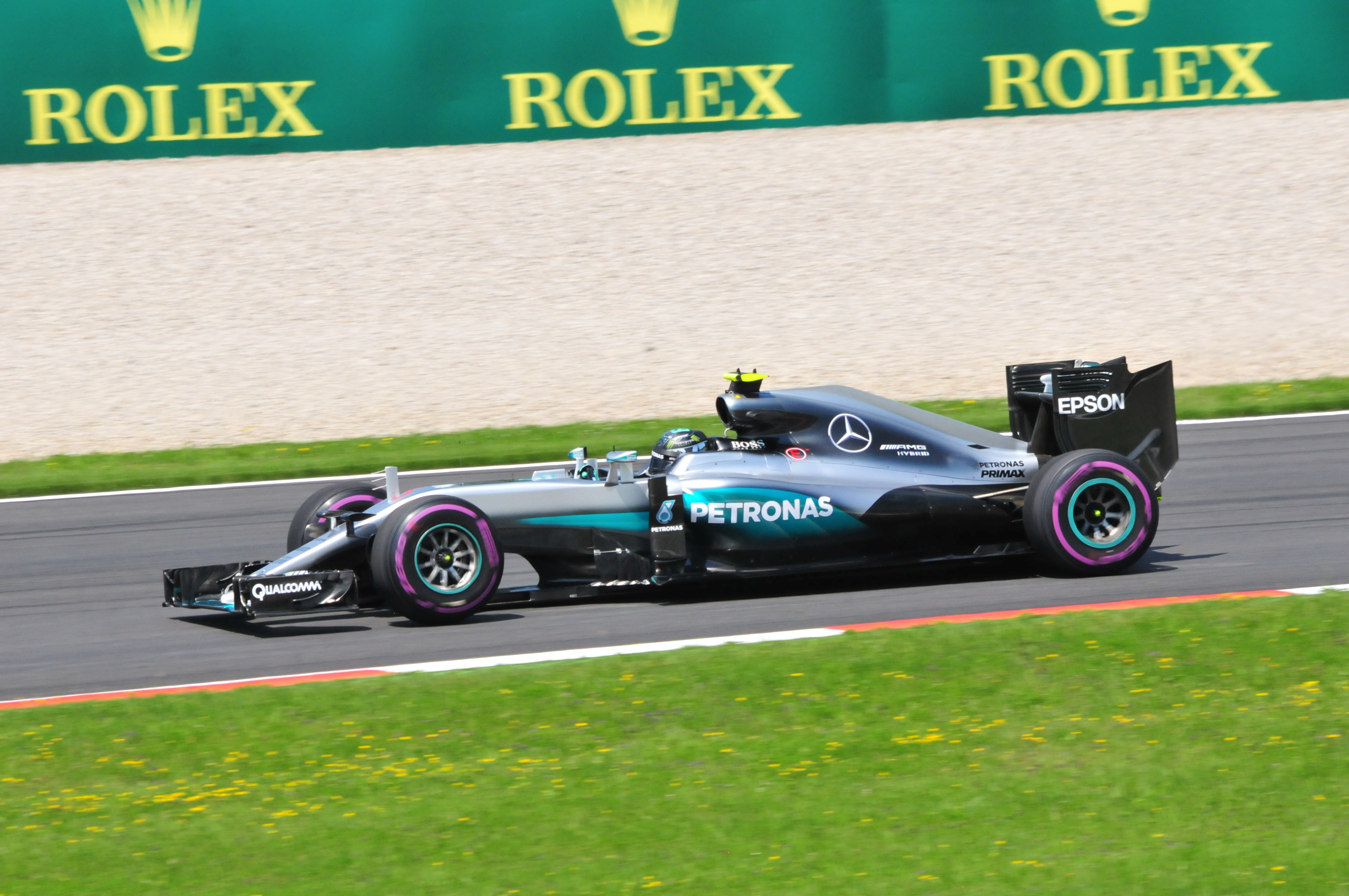 Nico Rosberg at the 2016 Austrian Grand Prix